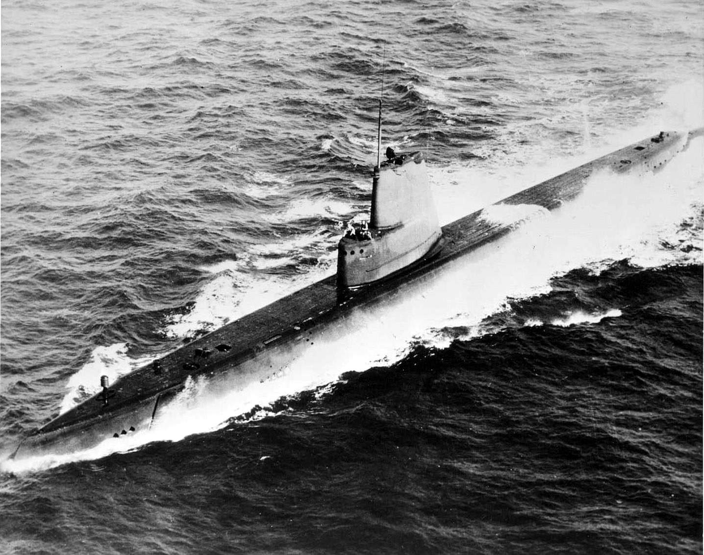 USS Clamagore (SS-343) sometime after her GUPPY conversion, circa post 1948.